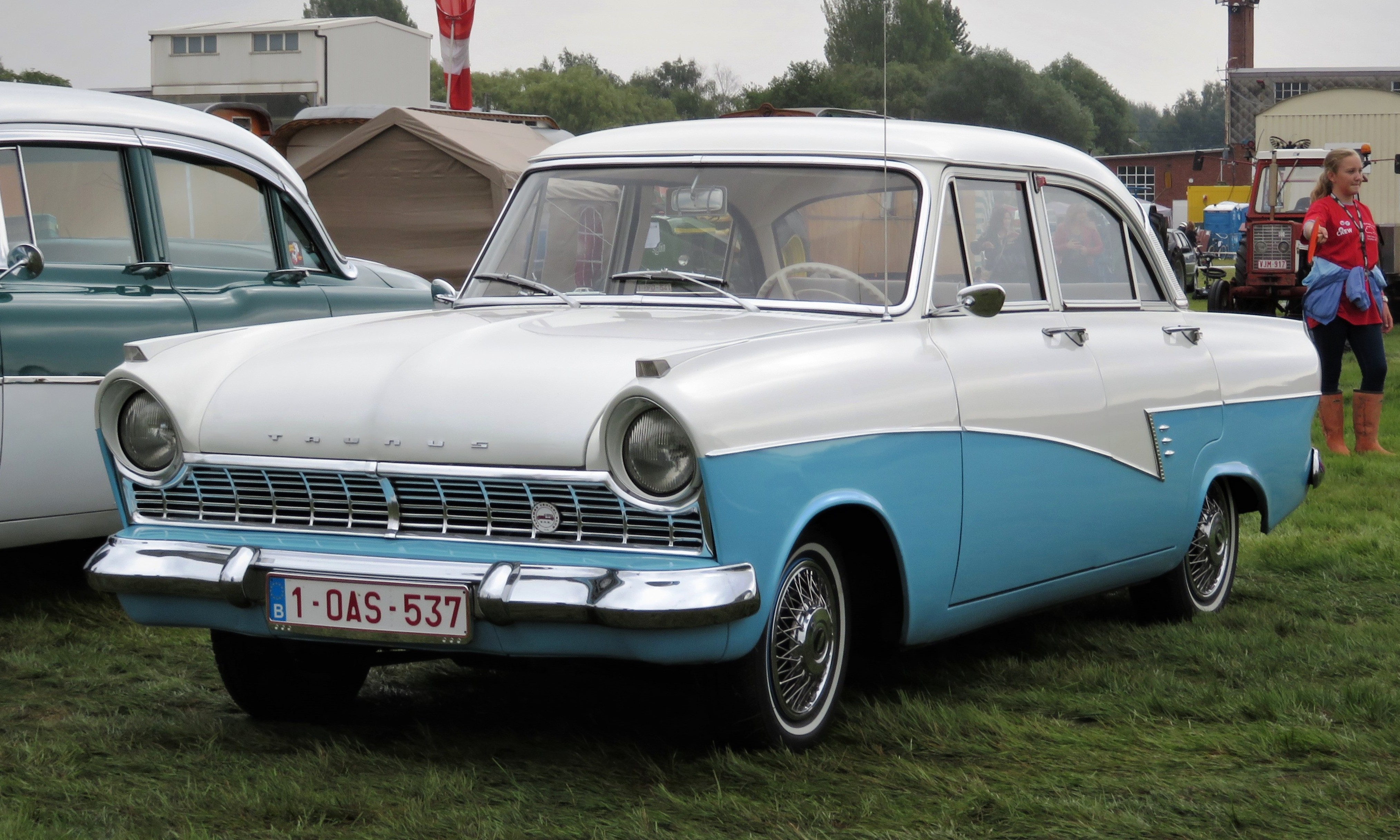 Ford Taunus P2 (1958) aka Ford Taunus 17M